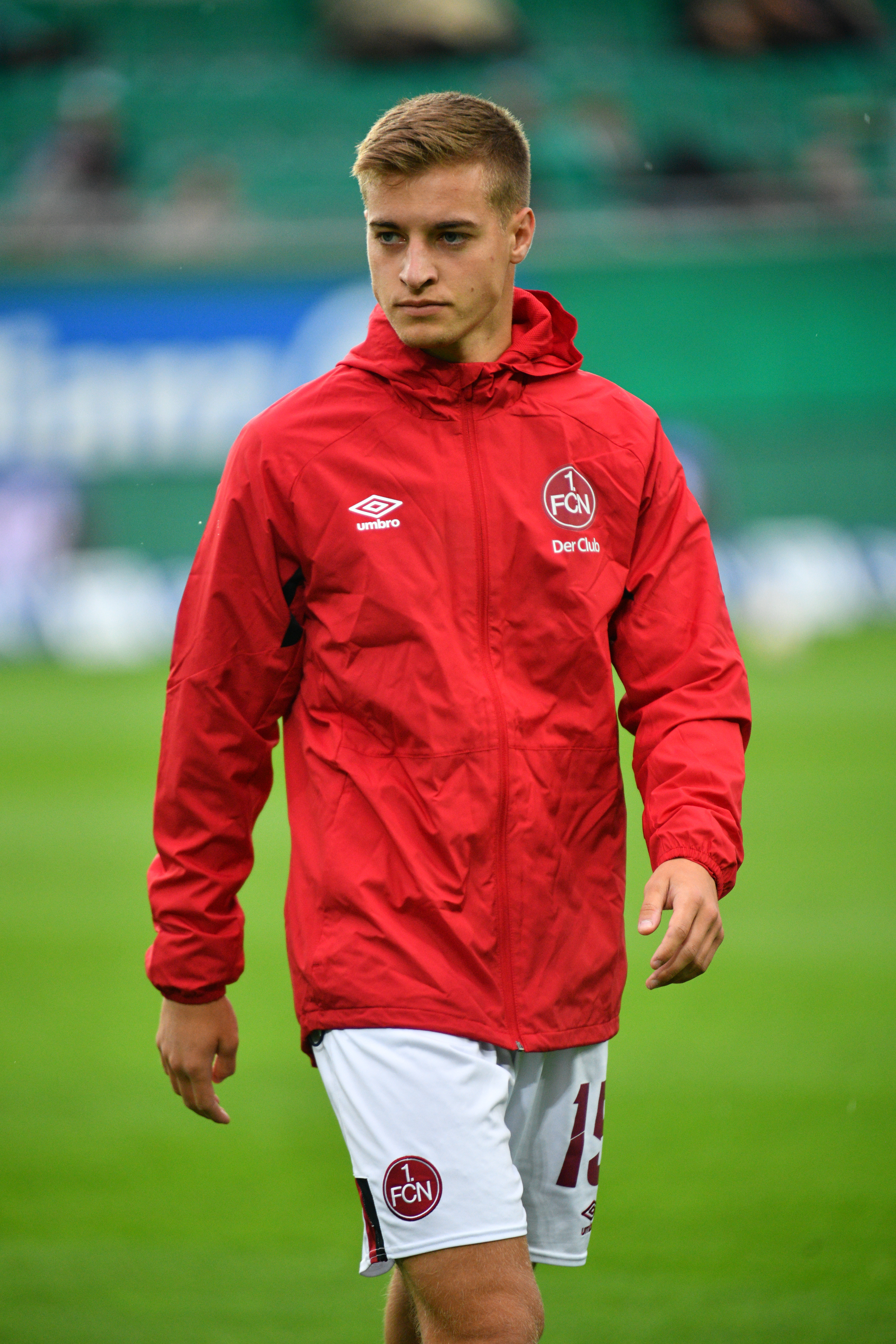 Austrian soccer league season 2019/20, friendly pre-season match SK Rapid Wien vs. 1. FC Nürnberg. Picture shows: Fabian Nürnberger (FCN).